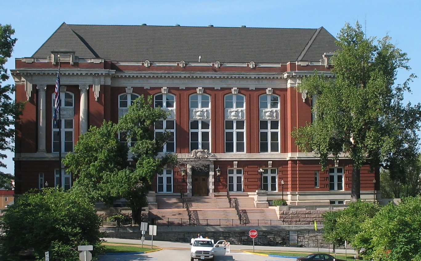 Missouri Supreme Court Building across from Missouri State Capitol in Jefferson City, Missouri. Photo by poster in September 2007.